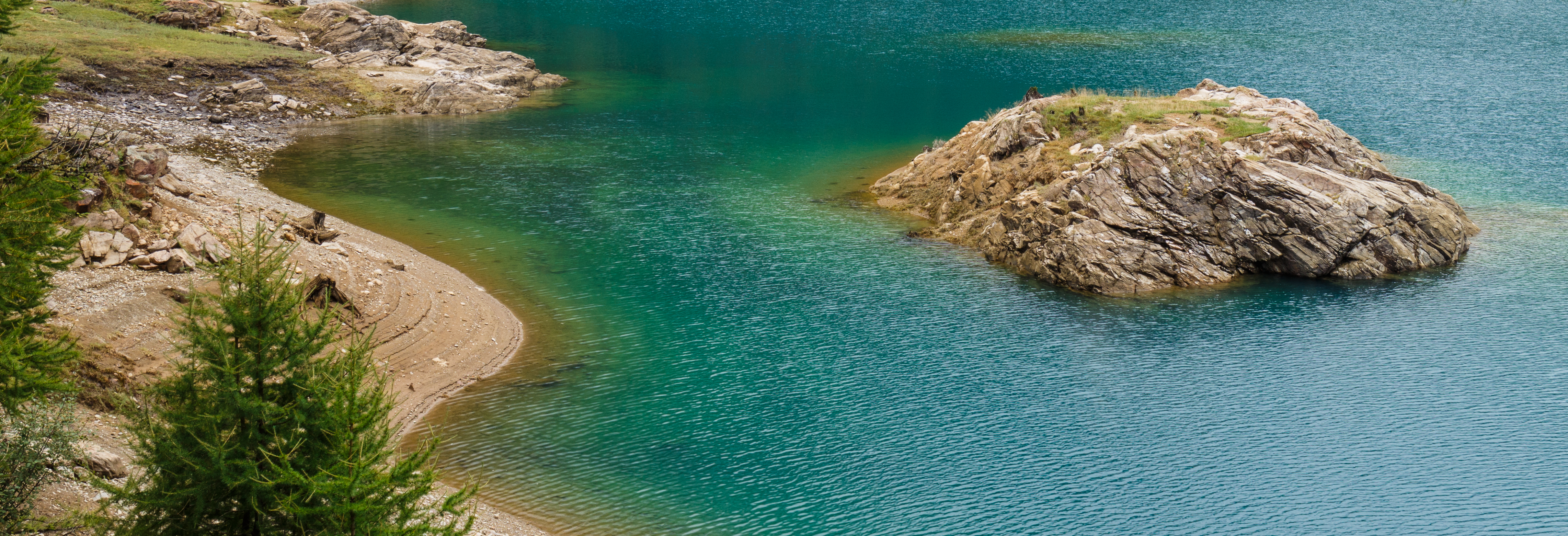 Walking around Lago di Pian Palù (1800 m). in the Parco nazionale dello Stelvio (Italy).